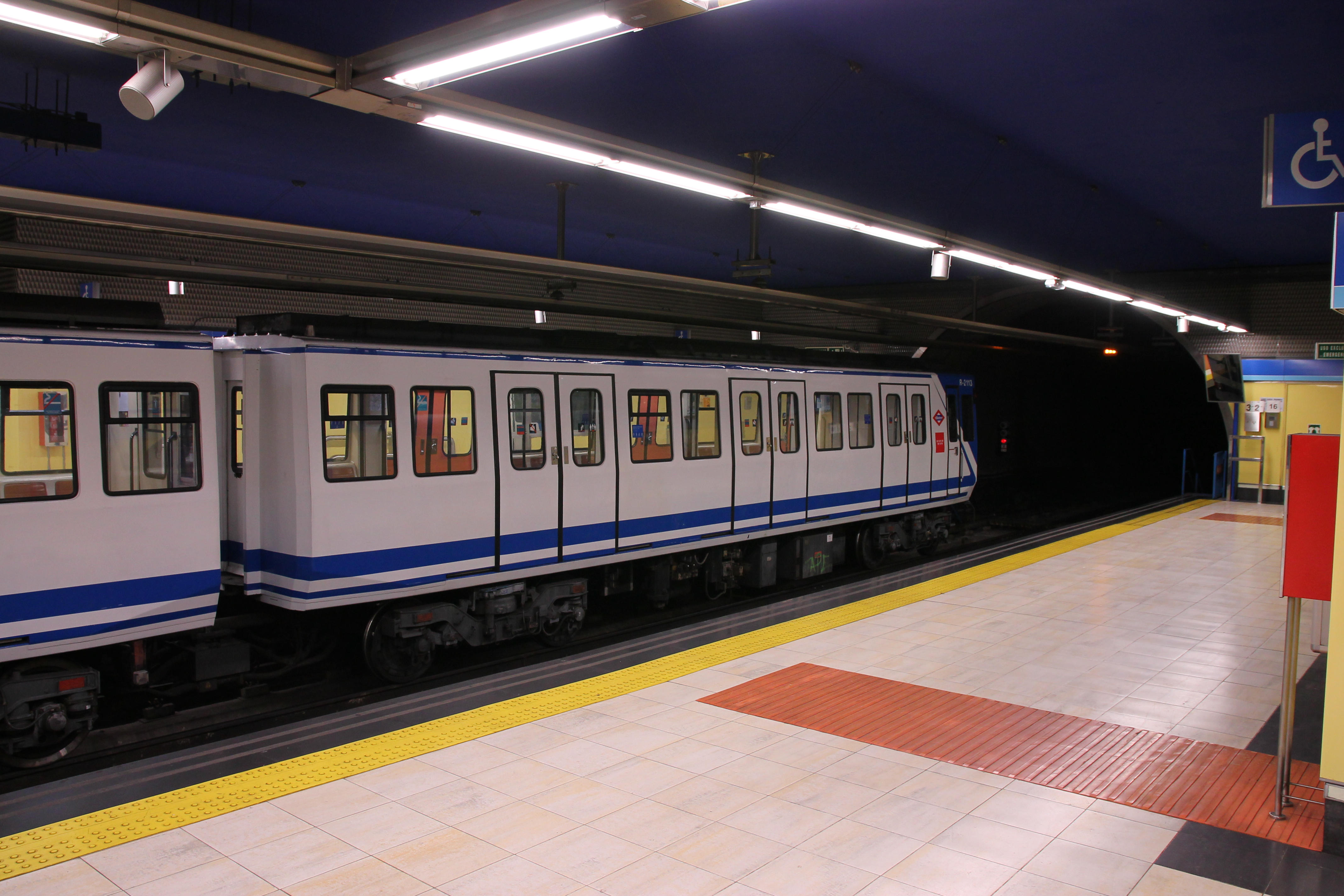 Estación de Valdecarros